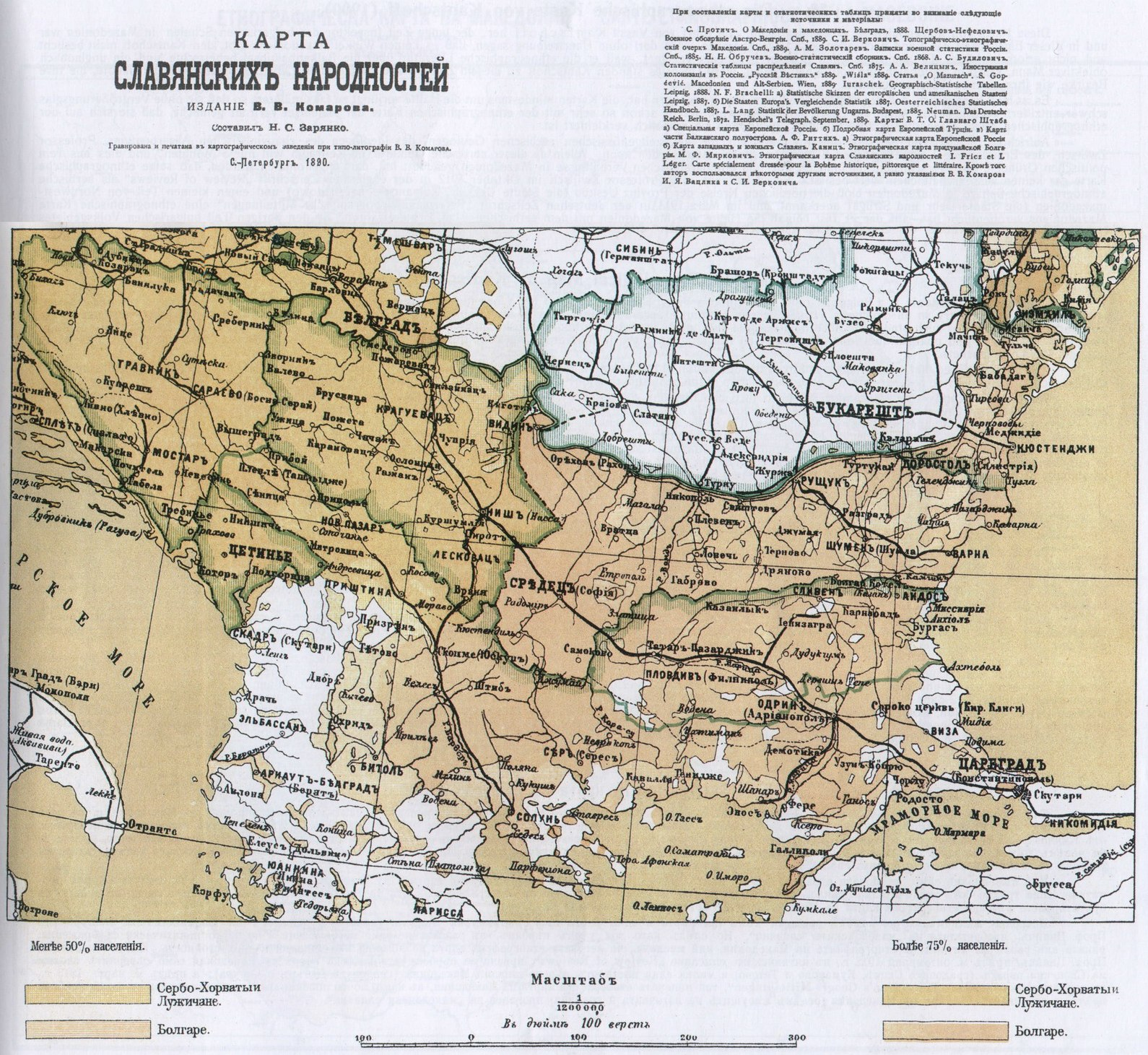 Ethnic map of Balkans 1890